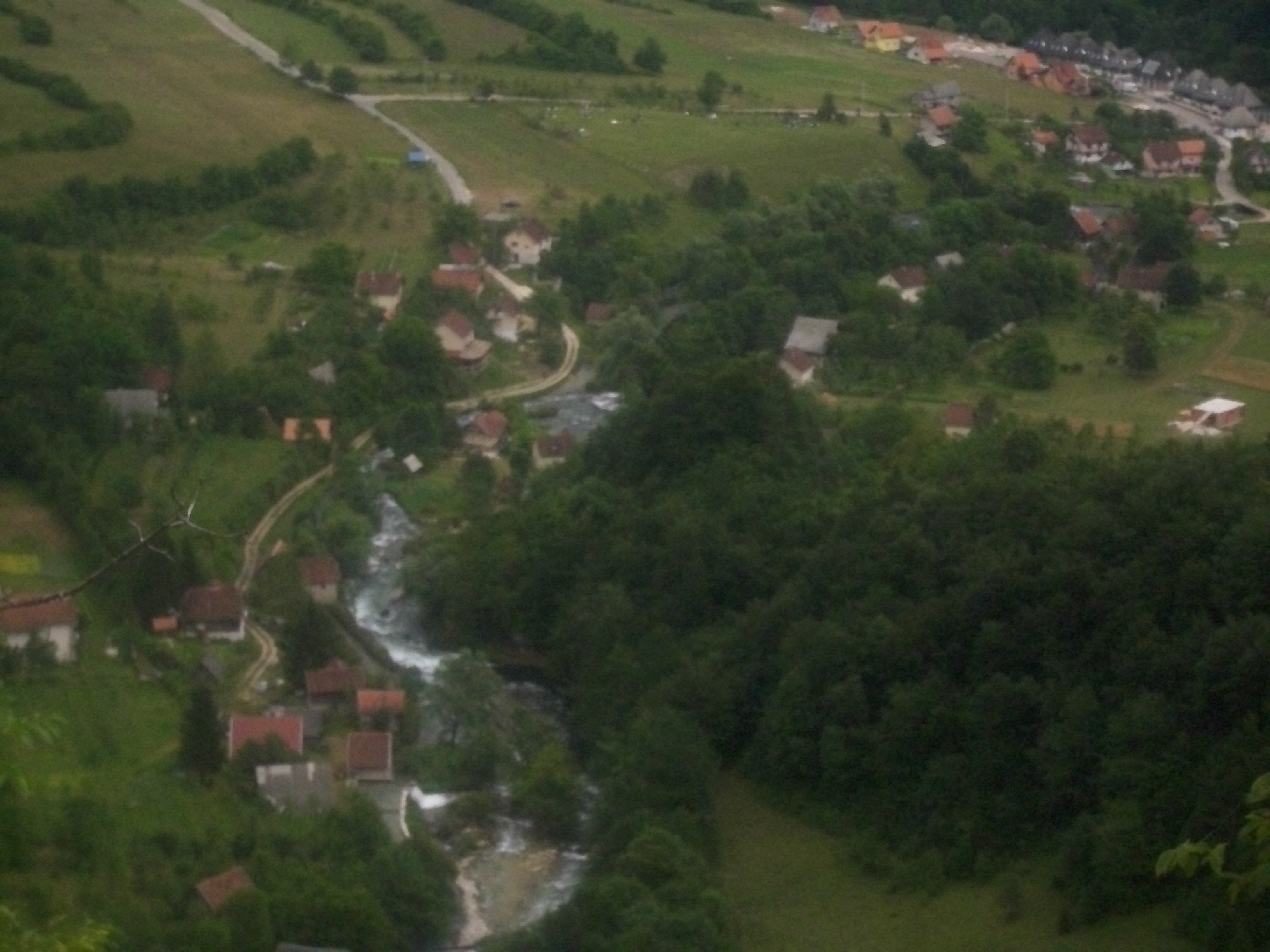 Pljeva village in Šipovo municipality